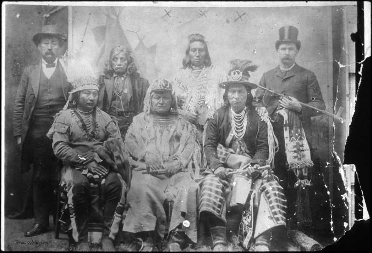 Cayuse and Shahaptian delegates meet with Commissioner of Indian Affairs, Washington D.C. In the back row stand four: John McBain (far left), Cayuse chief Showaway, Palouse chief Wolf Necklace, and far right, Lee Moorhouse, Umatilla Indian Agent. In the front row sits Umatilla chief Peo, Walla Walla chief Hamli, and Cayuse chief Young Chief [Tauitau]. All the chiefs except Showaway wear clothing of their tribe in the 1890s.